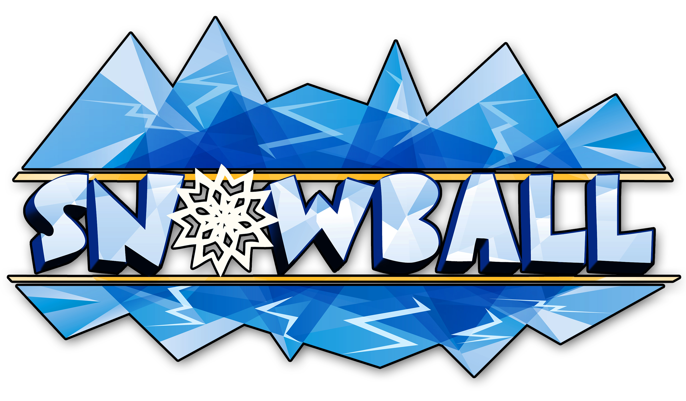 The Official Logo of the 2013 SnowBall Music Festival -- Winter Park, CO.